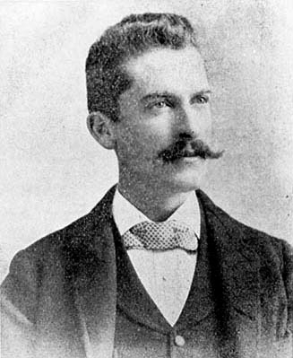 William H. Carlson, Ocean Beach real estate promoter, later mayor of San Diego